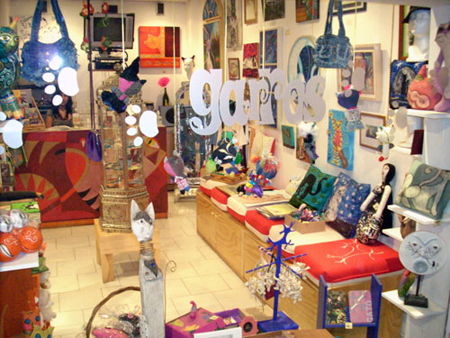 Prohibido el Paso and Cuerpos en Proceso joint exhibition at Garros Galería